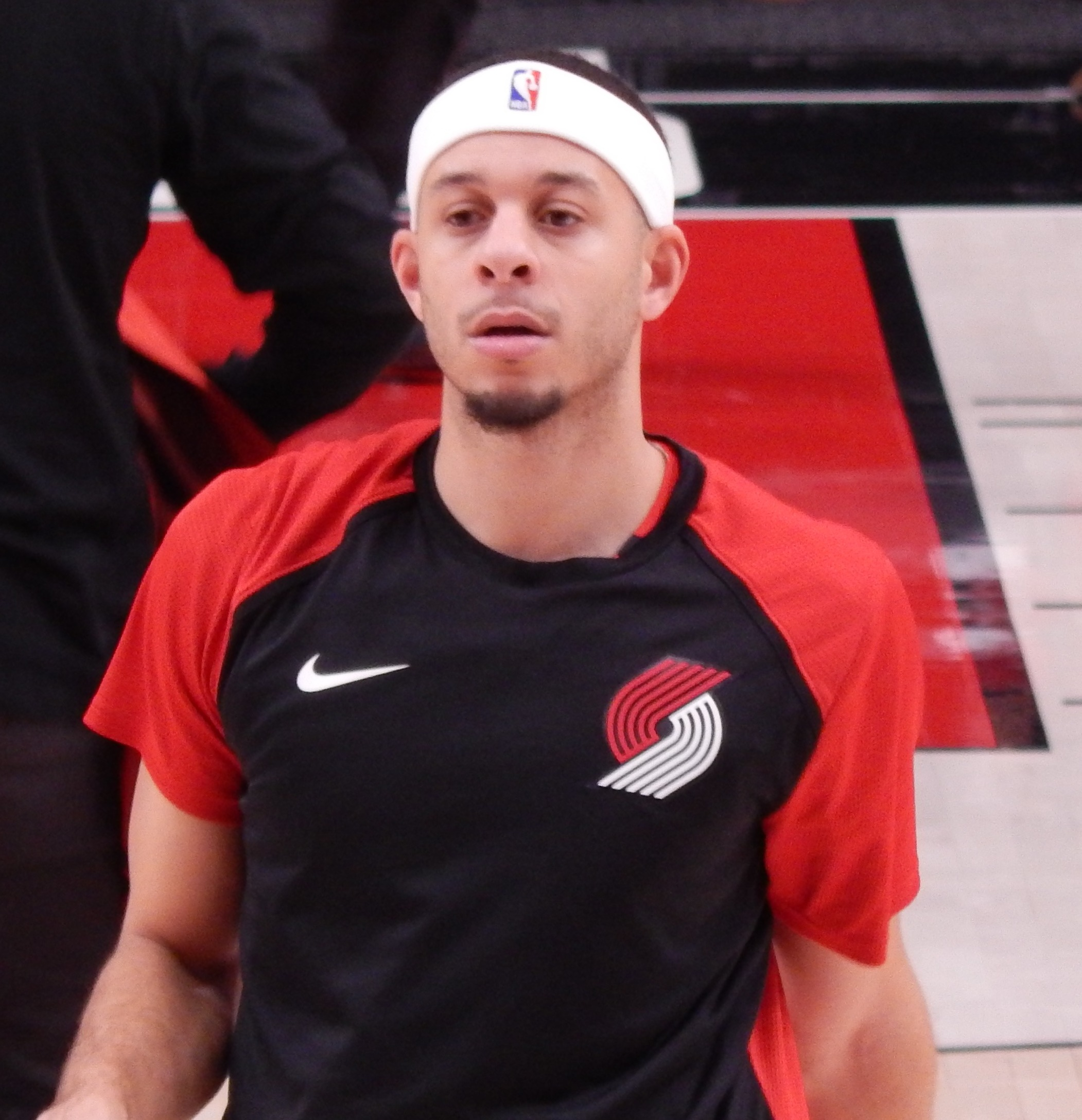 Seth Curry #31 of the Portland Trail Blazers against the Cleveland Cavaliers on January 16, 2019 at Moda Center in Portland, Oregon.